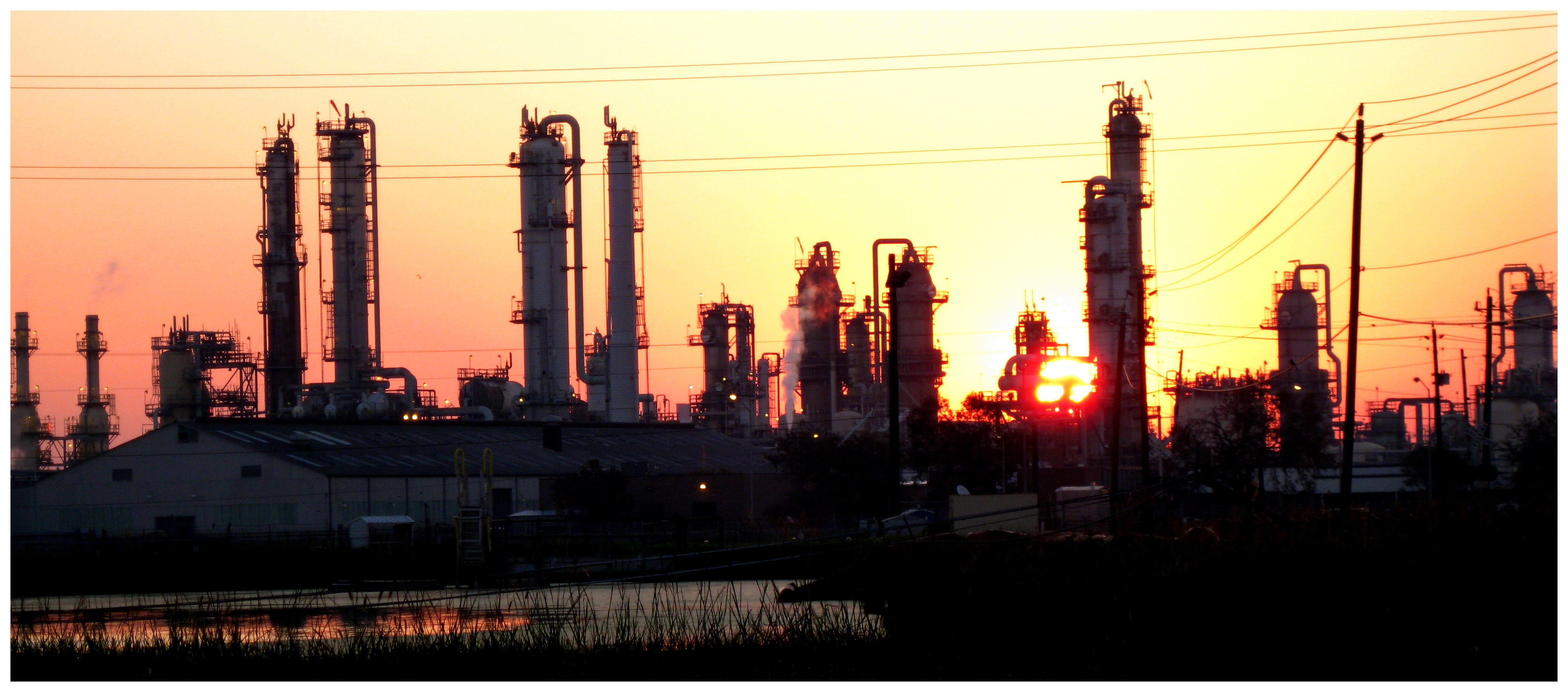 September sunrise over a chemical plant on the Houston Ship Channel near Baytown, Texas.